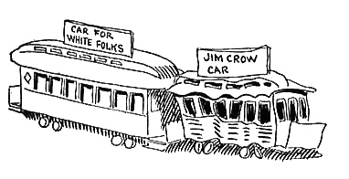 "White" and "Jim Crow" railcars; racial segregation in the United States as cartooned by John McCutcheon.